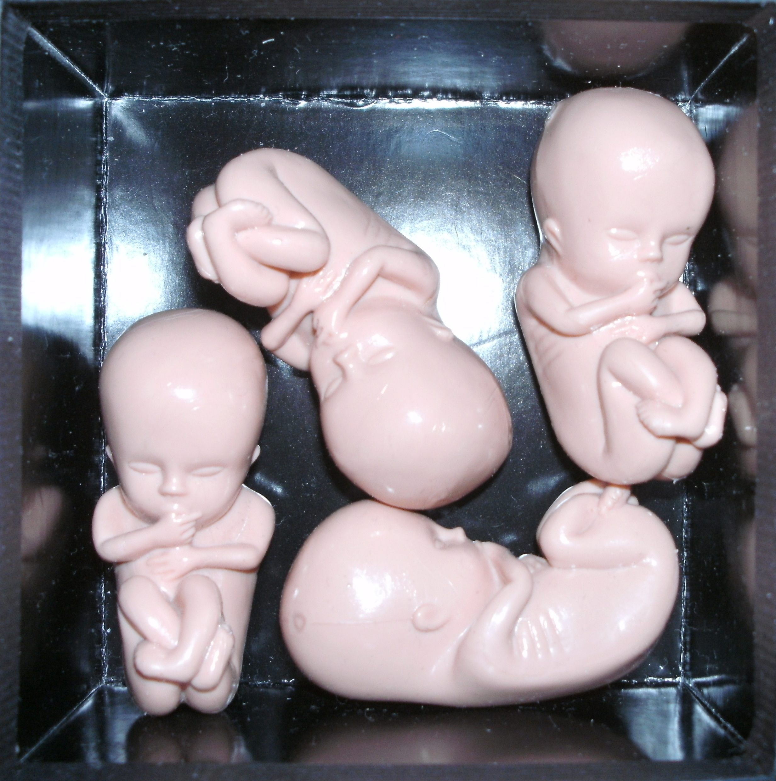 Plastic models of human embryos, about 10 weeks' gestation